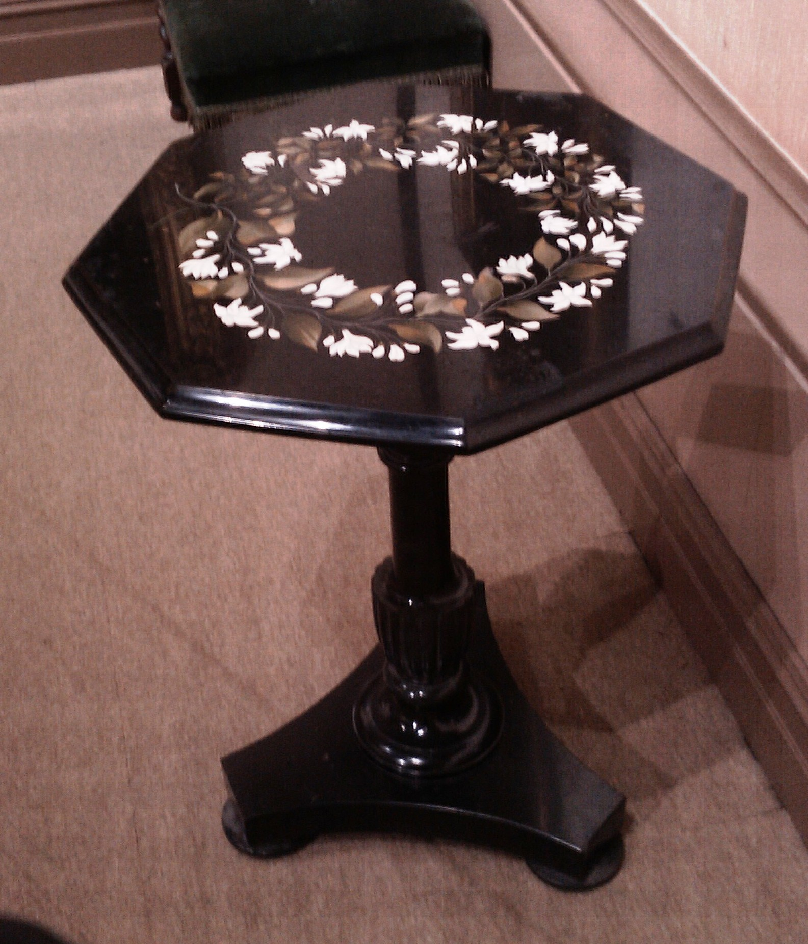 An Ashford Black marble table from Derby Museum